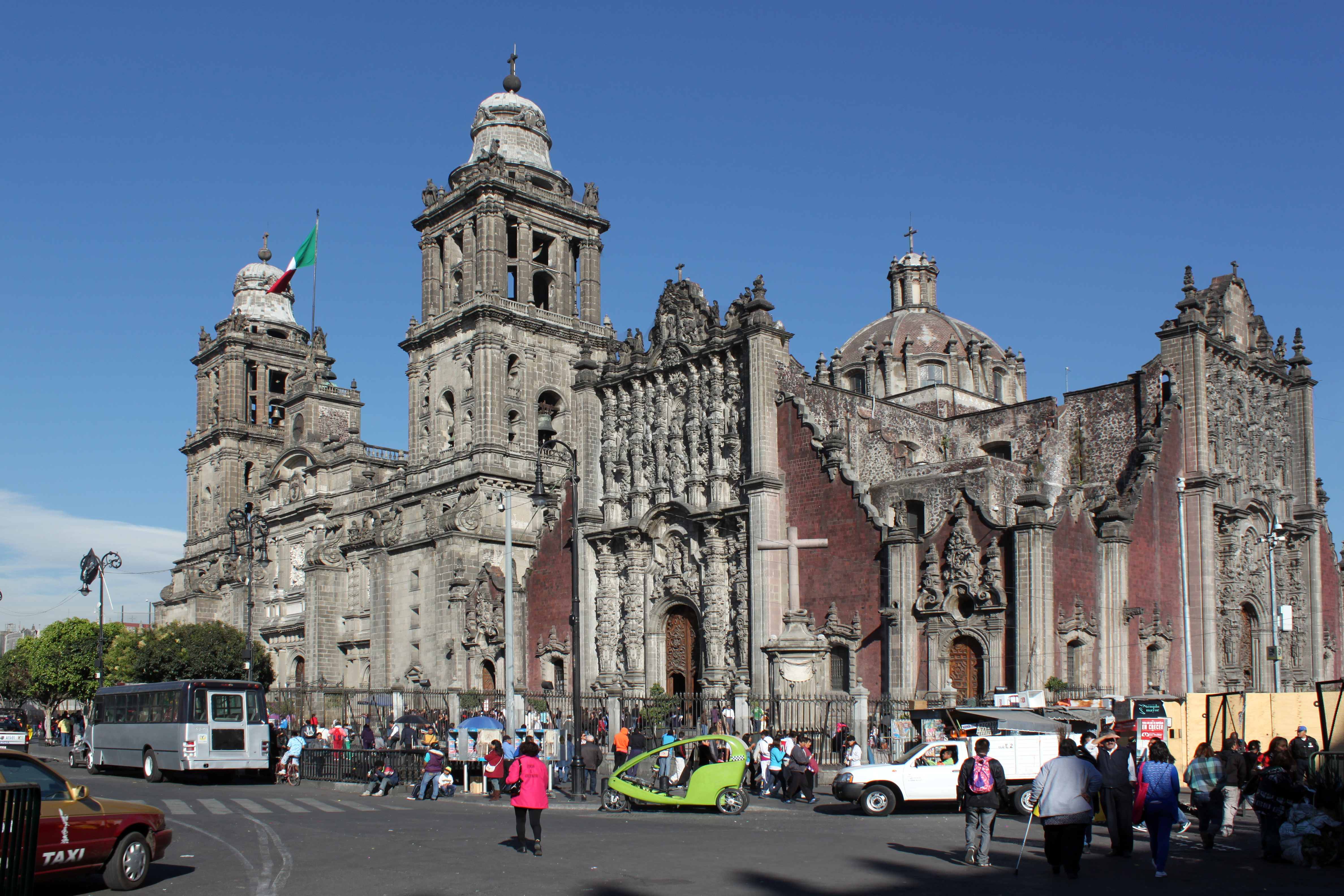 Mexico City Cathedral